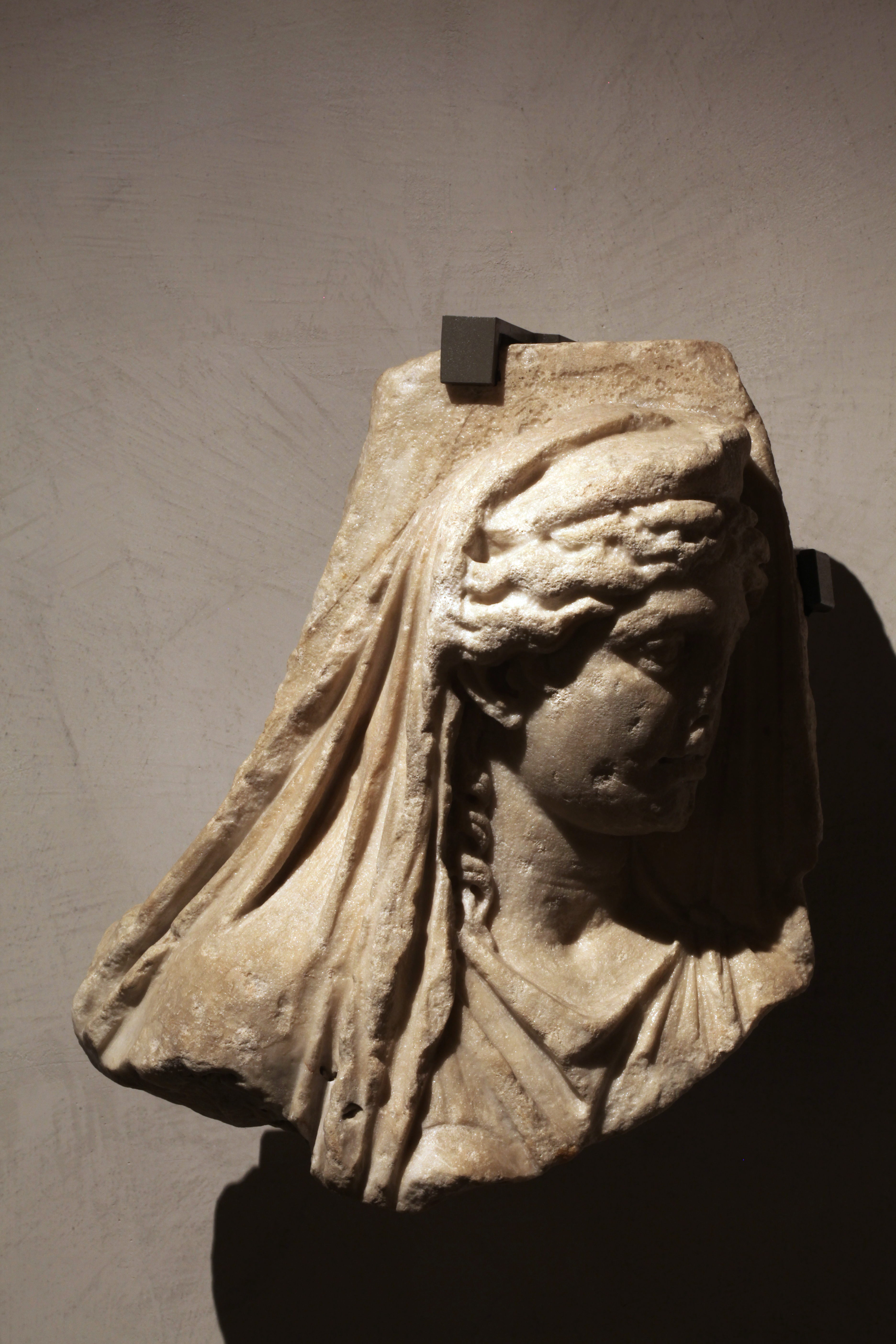 Head of a veiled young woman. Possibly part of a sarcophagus.